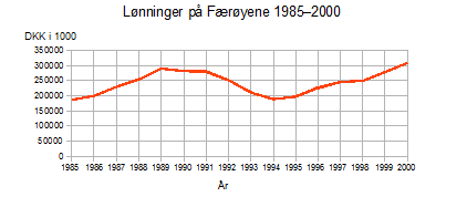 Wage expenditure in the Faroe Islands in the period 1985–2000, numbers in 1000 DKK. Statistics from Hagstova Føroya (hagstova.fo). Created in OpenOffice Calc.